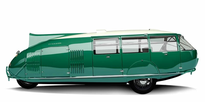 Dymaxion car